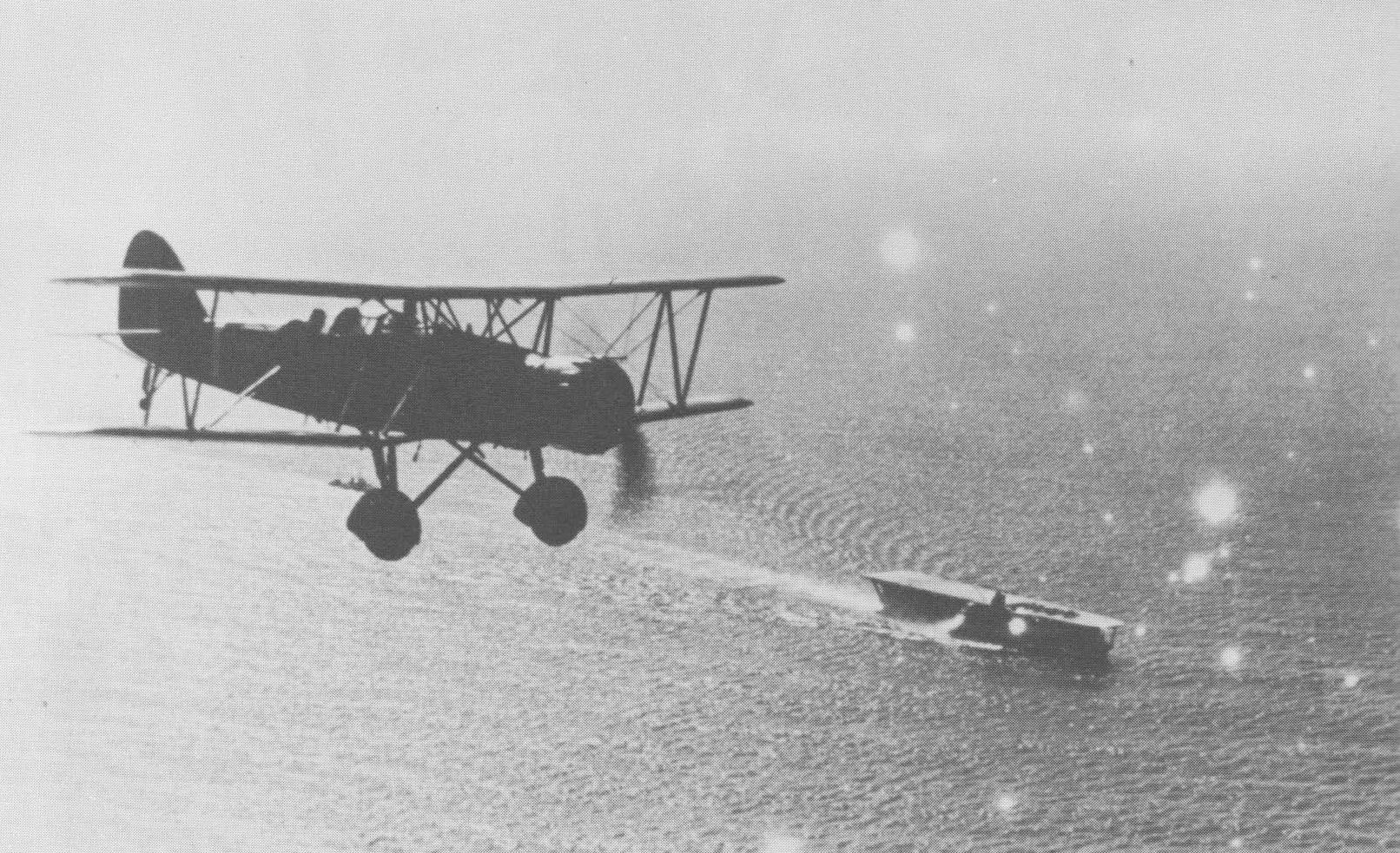 An Imperial Japanese Navy Type 96 carrier attack plane flies near the aircraft carrier Kaga off China during the China incident in 1937 or 1938.